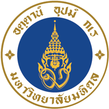 Mahidol University logo